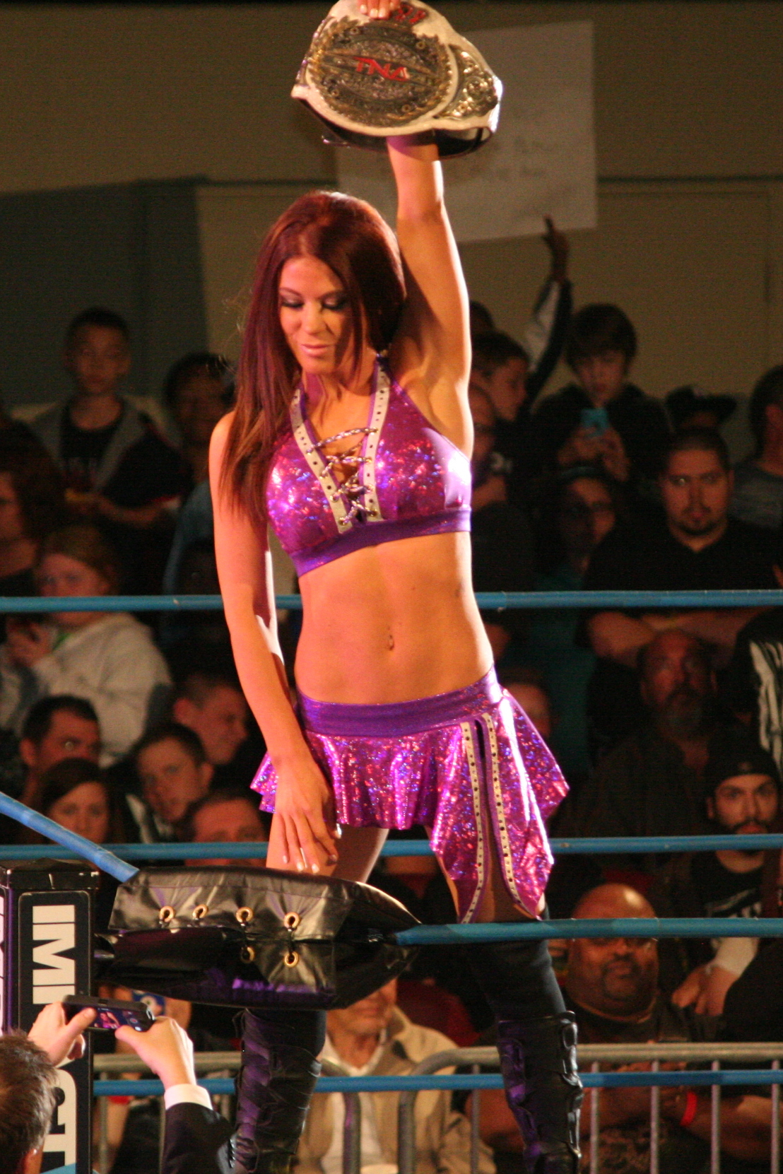 Madison Rayne as the TNA Knockouts Champion in April 2014 in Concord, North Carolina. Cropped from original.